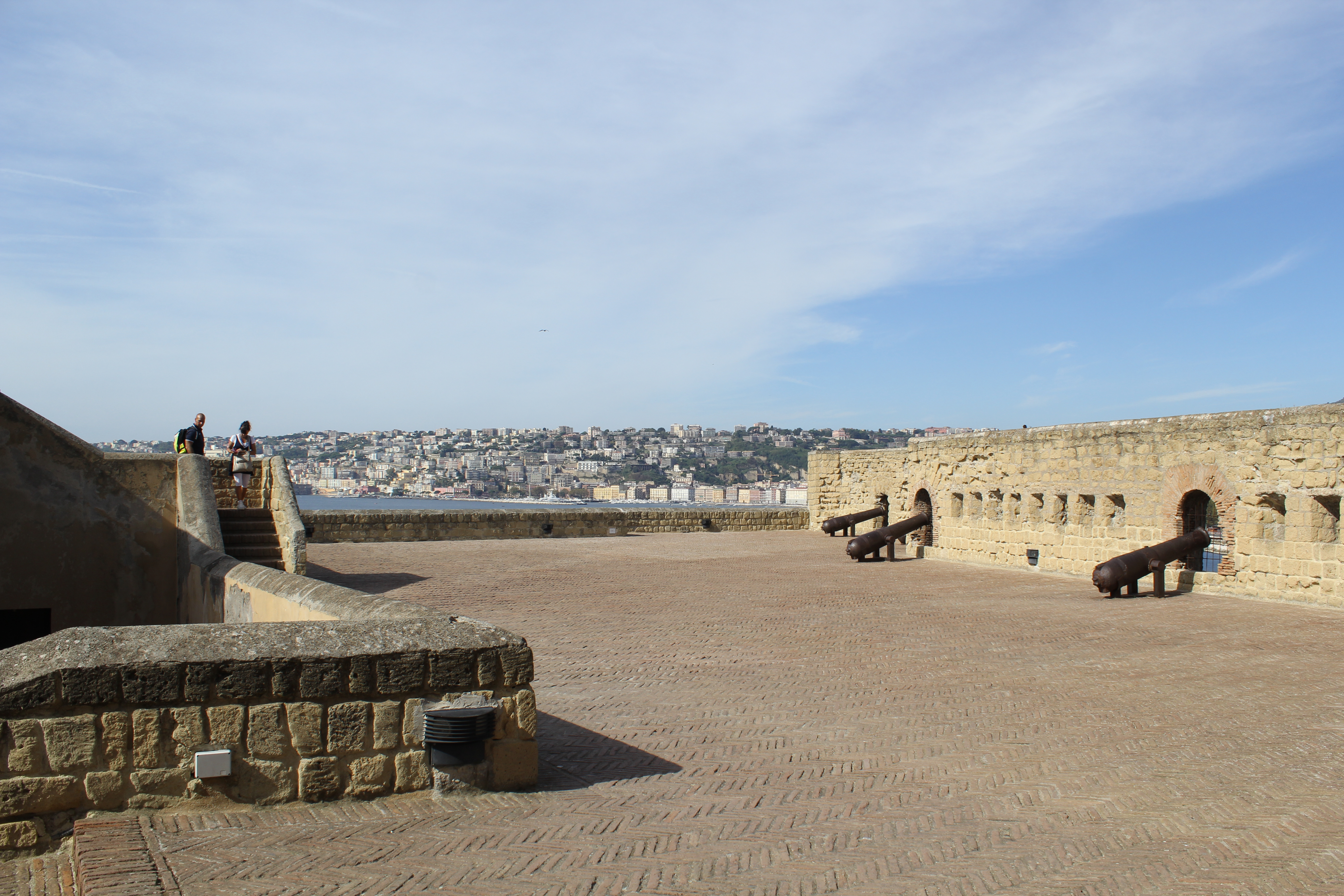 Castel dell'Ovo (29) This file was generated using equipment from Wikimedia UK, a Wikimedia local chapter.